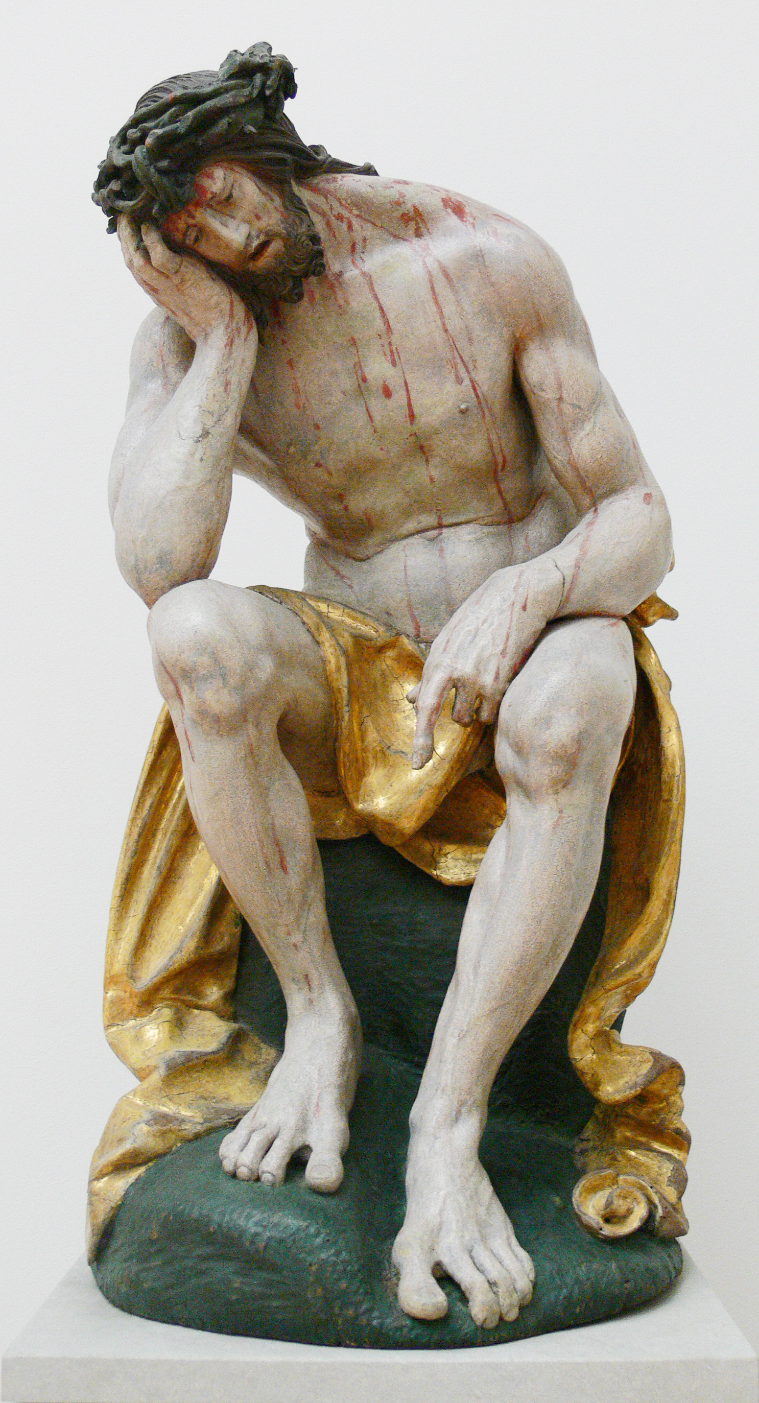 Hans Leinberger: Christ in Distress, c. 1525; limewood, old colours; height: 75 cm. Skulpturensammlung (inv. no. 8347; acquired in 1925), Bode-Museum Berlin.